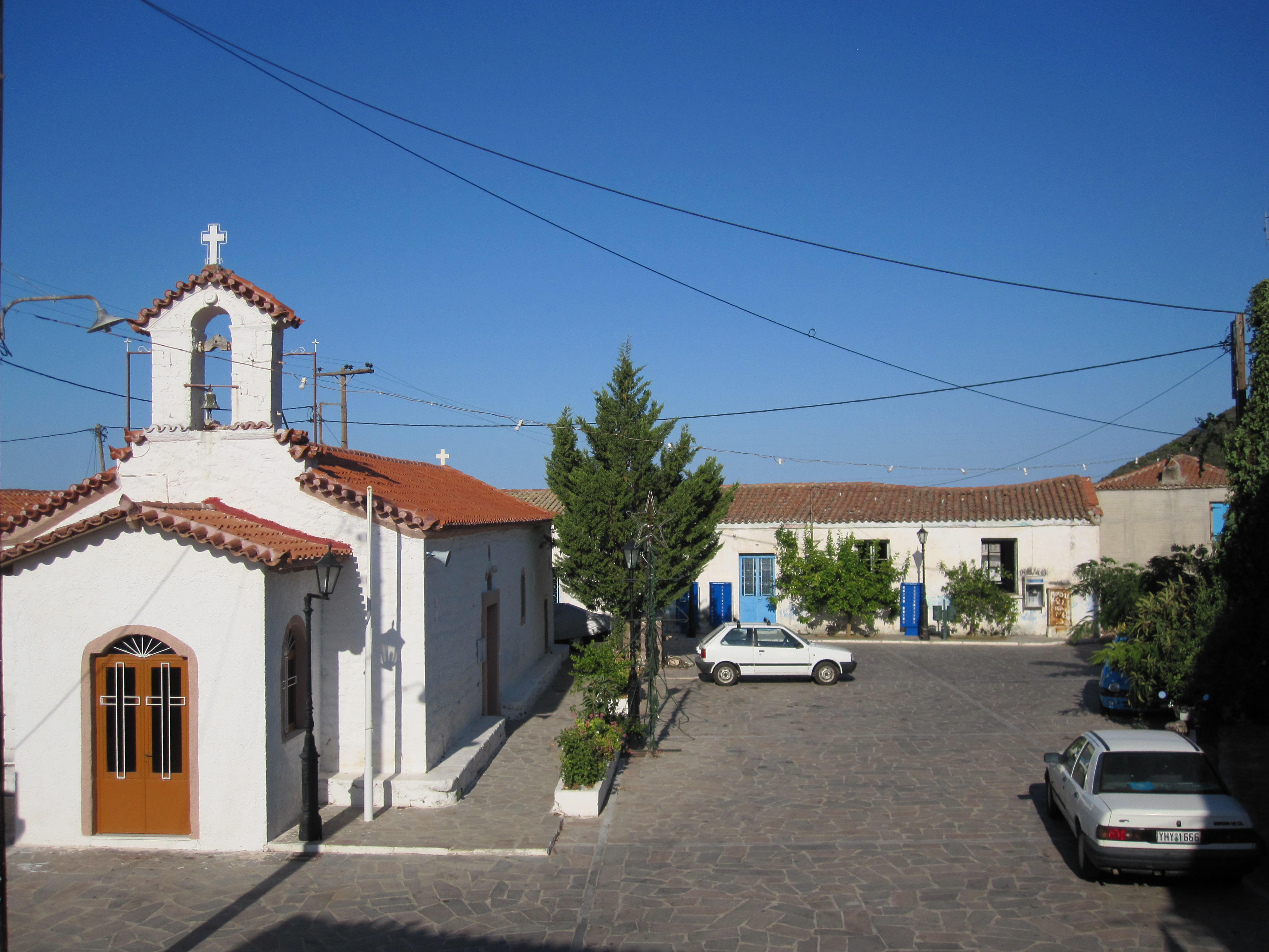 Kounoupitsa, Methana, Peloponnese, Greece. The Dormition orthodox church and the main square